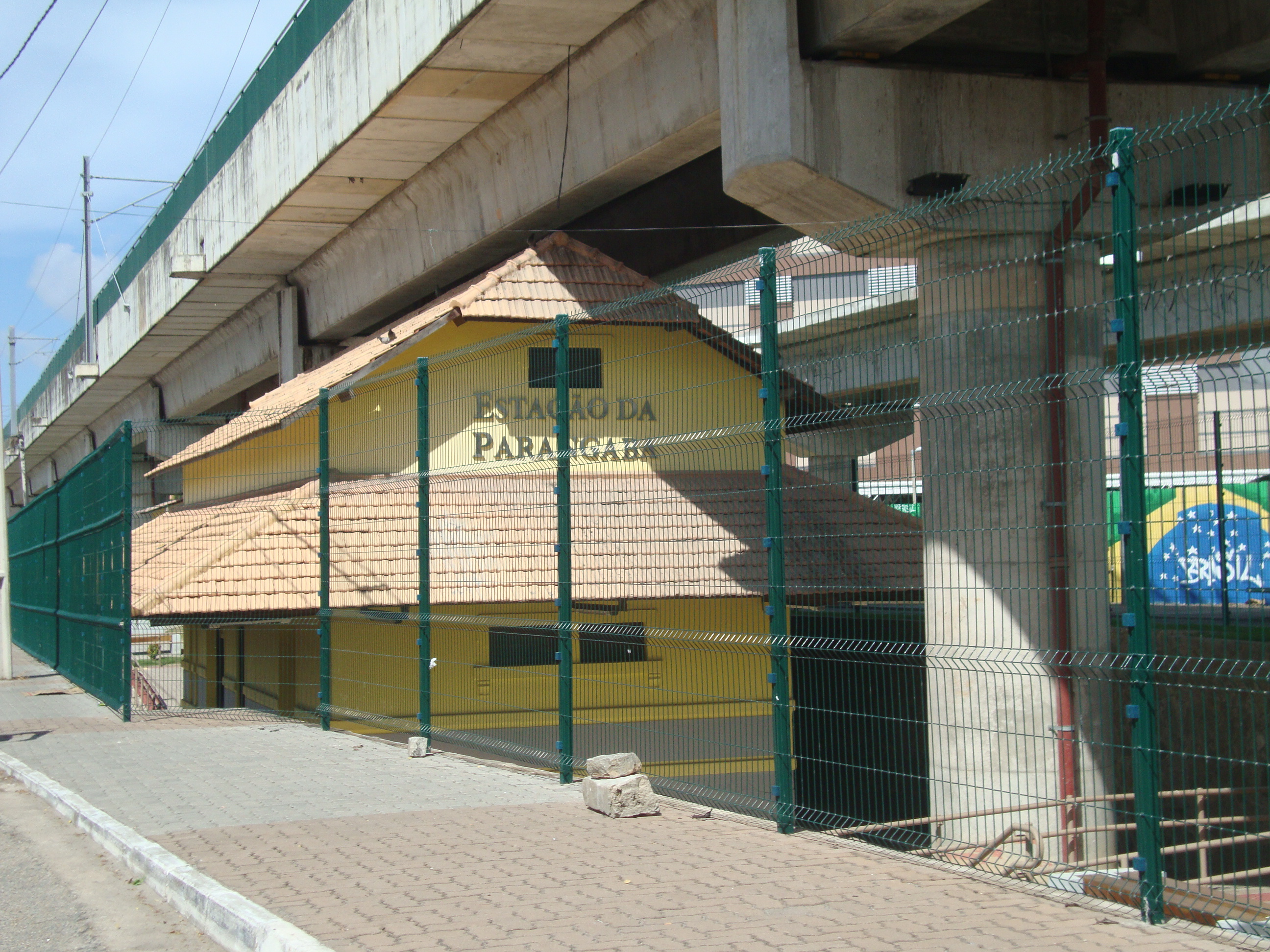 Estação da Parangaba (Parangaba Train Station) is a historic heritage of Fortaleza - CE, Brazil.